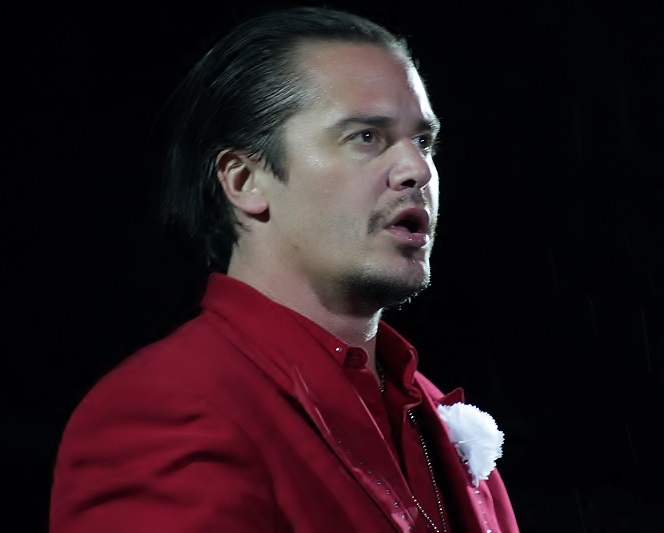 Mike Patton performing with Faith No More at Maquinária Festival, São Paulo, Brazil on 6 November 2009.